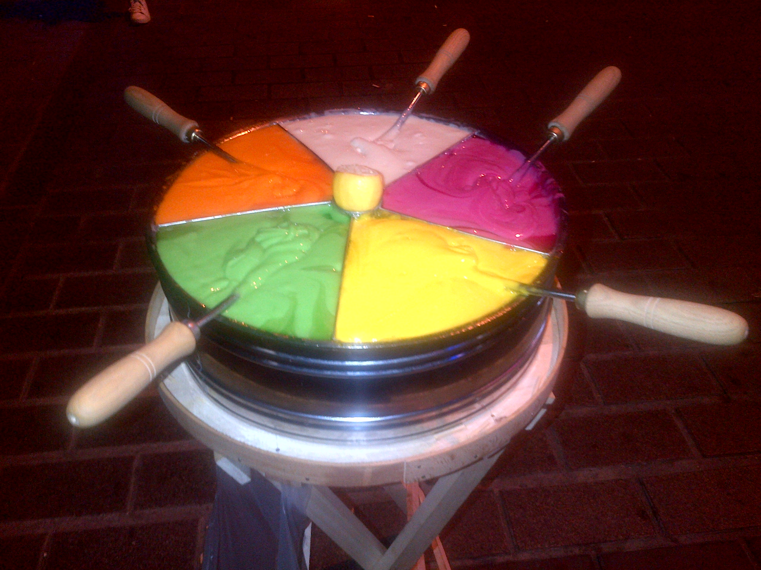 Macun, a Turkish sweet food, especially for kids during popular celebrations ("bayram").